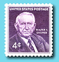 US stamp honoring Walter George